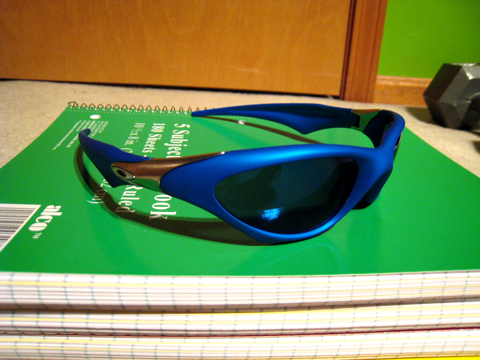 Oakley Scar, Electric Blue with Ice Iridium lenses